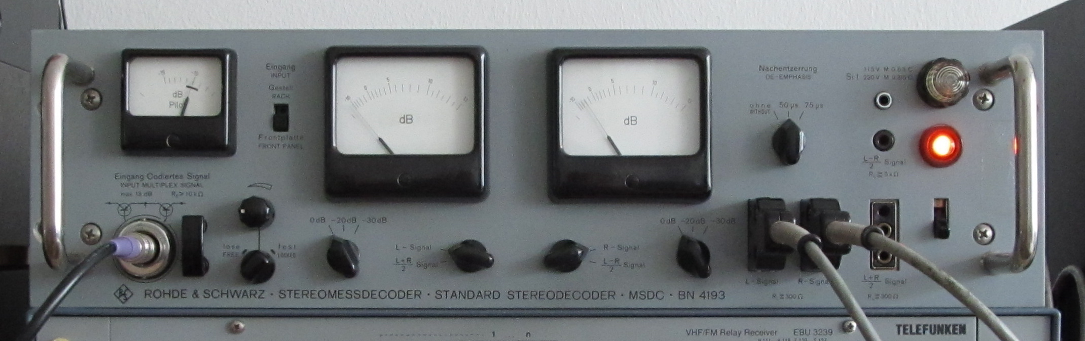 Professional VHF stereo decoder Rohde & Schwarz (R&S) MSDC BN 4193. This unit was manufactured at the end of the 1970s.